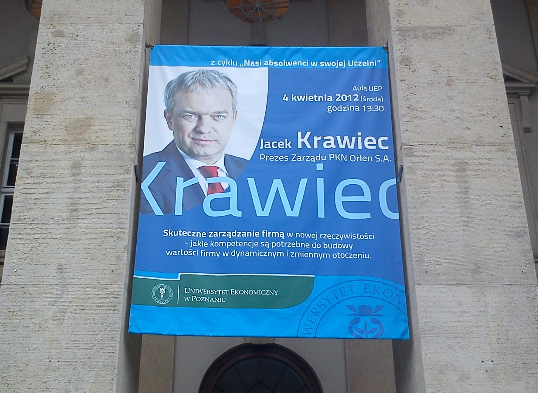 Jacek Krawiec - President of PKN Orlen. In his time E95 fuel gone up to almost 6 PLN/liter.